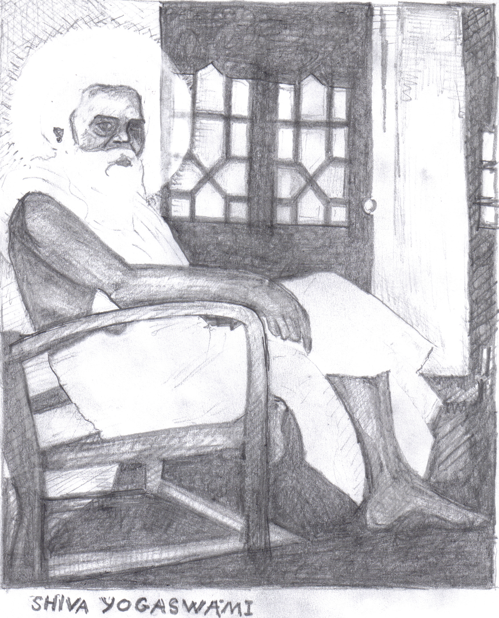 Pencil drawing of Yogaswami by Gananathamritananda Svami based off [1]. Since Yogaswami died in 1964 and Sri Lankan copyright law protects photographs for only 25 years after creation, the source image is public domain so this drawing is not a derivative work.